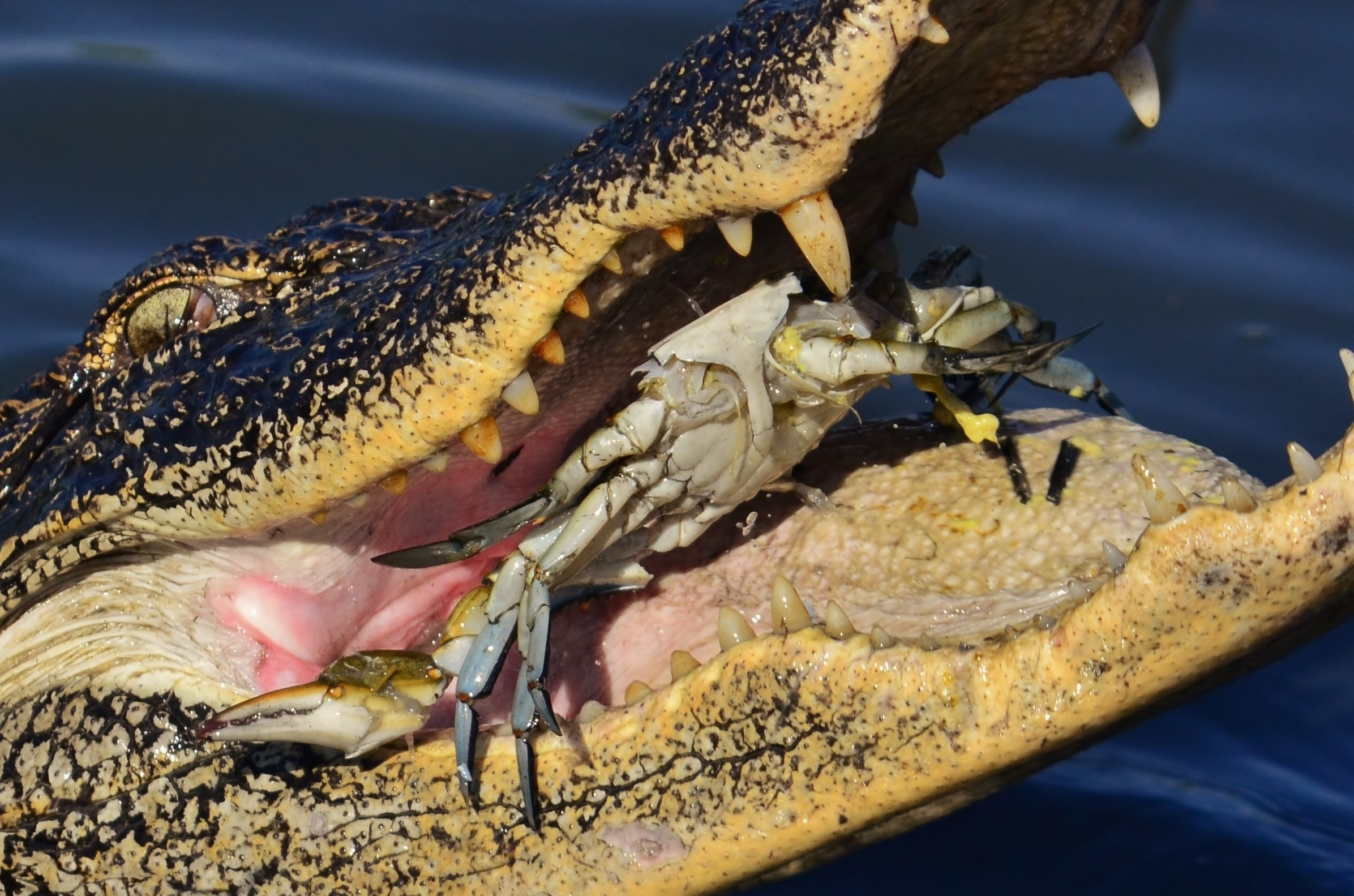 Taken by Gareth Rasberry, Huntington Beach State Park, Murrells Inlet, South Carolina, USA